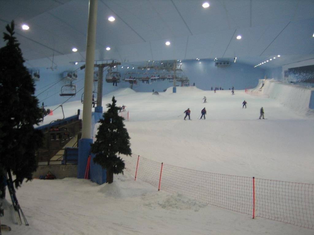 Ski Dubai is the largest indoor ski resort in the world. A view from the bottom looking up.